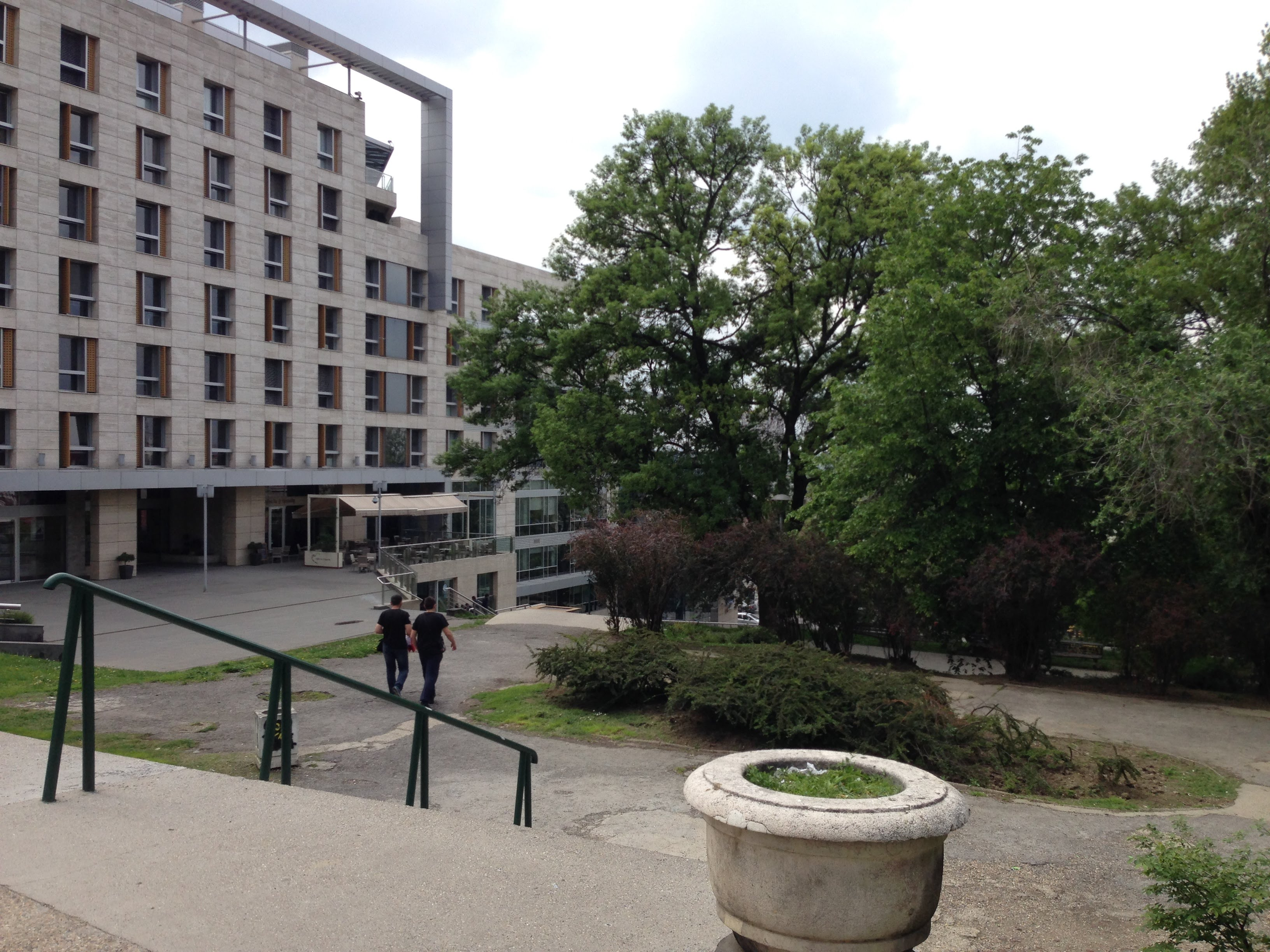 Terazije teracce